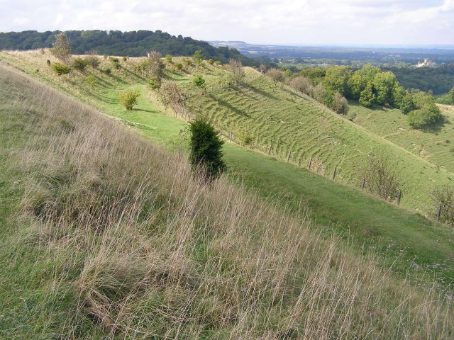 Northern edge of Beacon Hill hillfort. In the foreground and on the left is the inner rampart on the northern edge of the Iron Age hillfort, and below it the ditch and counterscarp bank. The chalk scarp on the north side of the hill is naturally steep and would have made a good natural defence. On the right in the distance, lit up by the sun, is Highclere Castle.